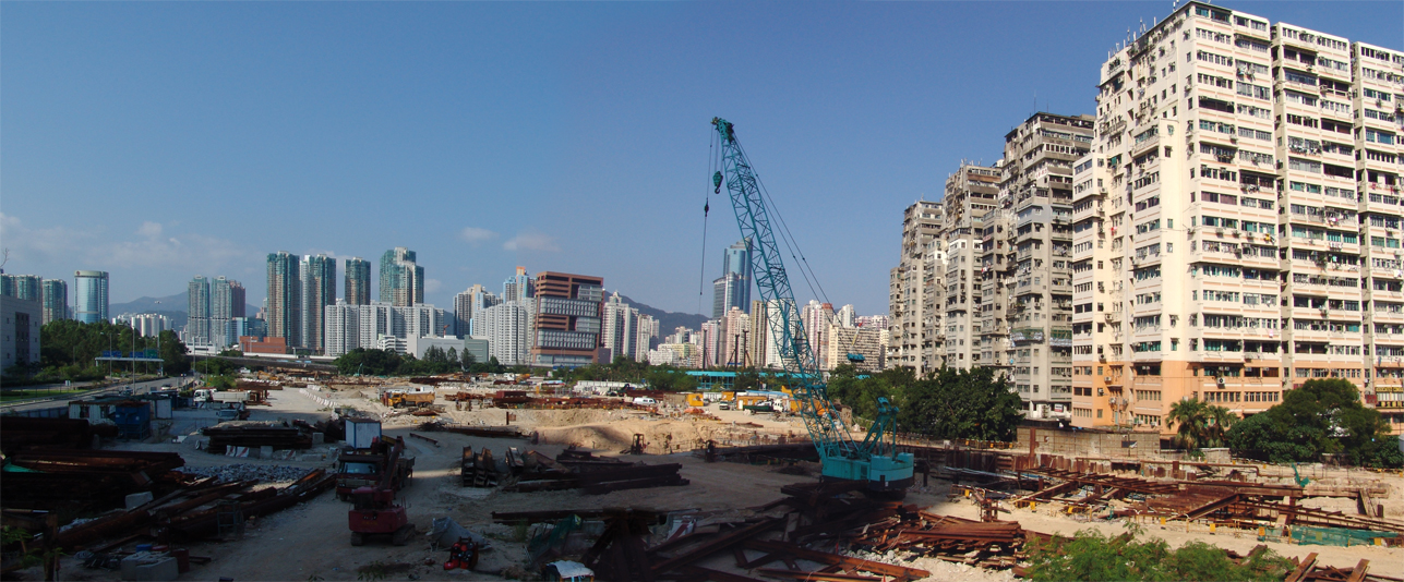 The west of Yaumatei, Hong Kong, it used to be the old shore line of Yaumatei, now reclaimed.